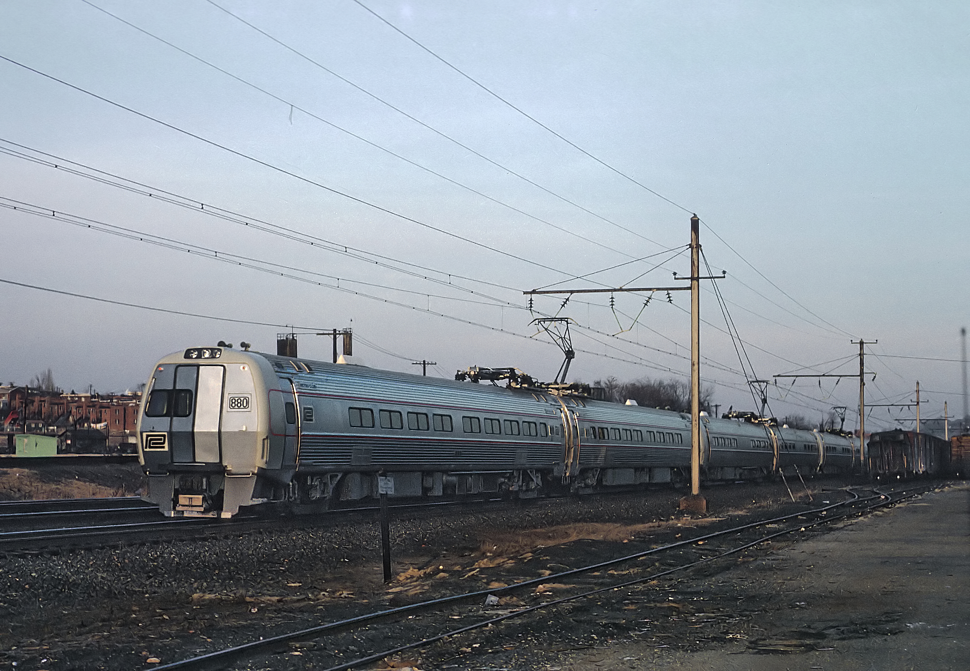 Penn Central Metroliner No. 2000 passing Ivy City Terminal, Washington, DC on its inaugural run.